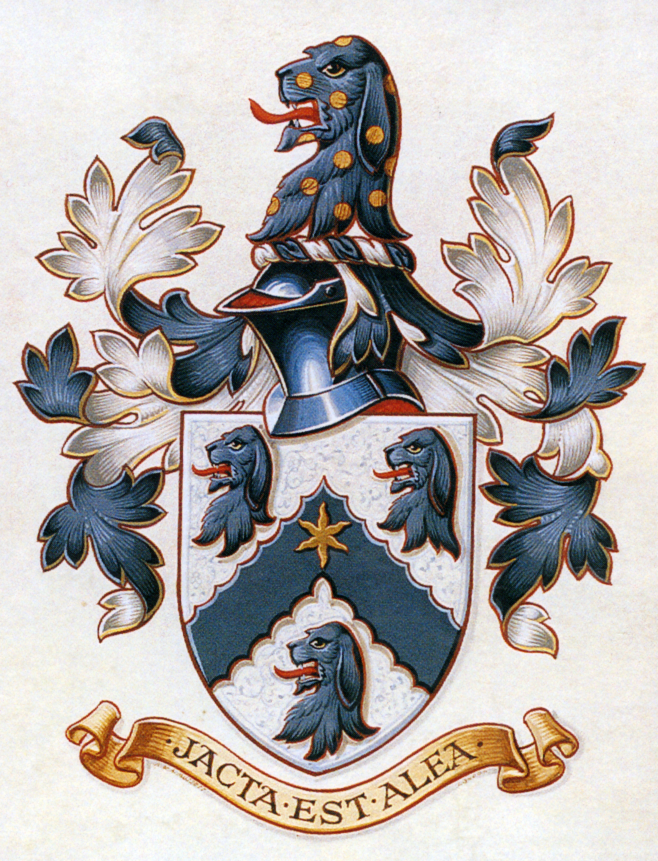 The coat of arms of the Hall family from Shackerstone. Argent, on a chevron engrailed between three talbot heads erased sable an estoile or